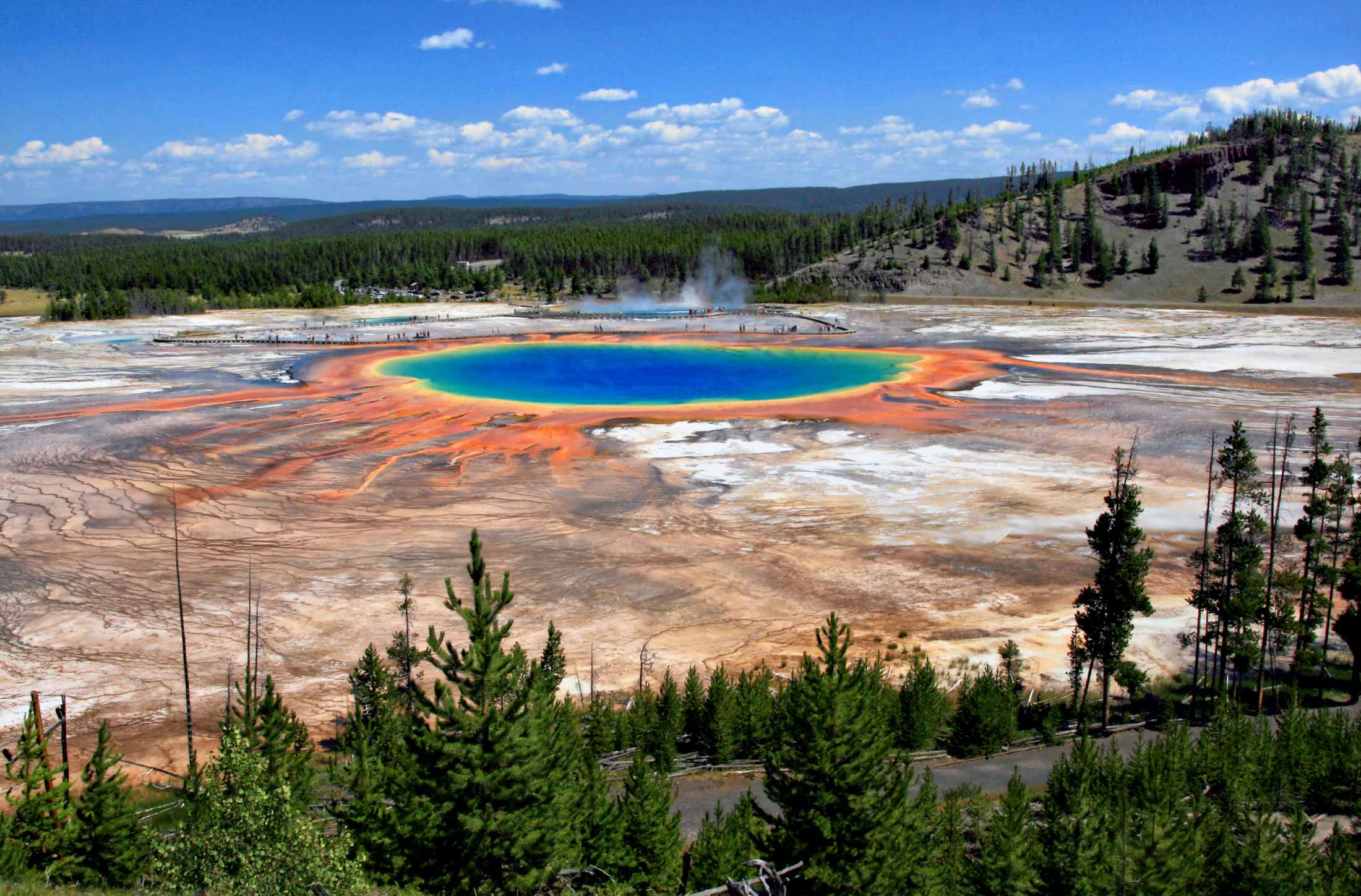 Grand Prismatic Spring and Midway Geyser Basin